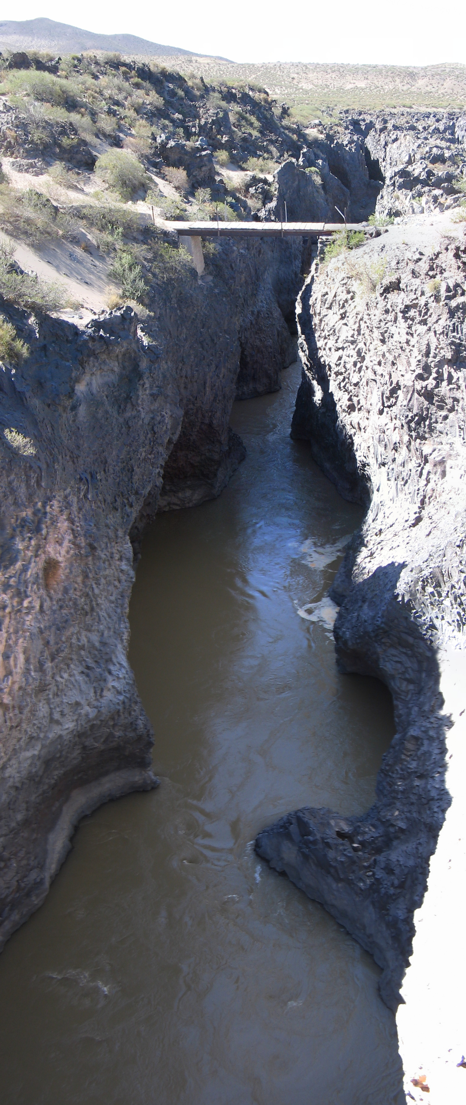 I took this photo in 2011 from a bridge of the Ruta Nacional 40 (Argentina).